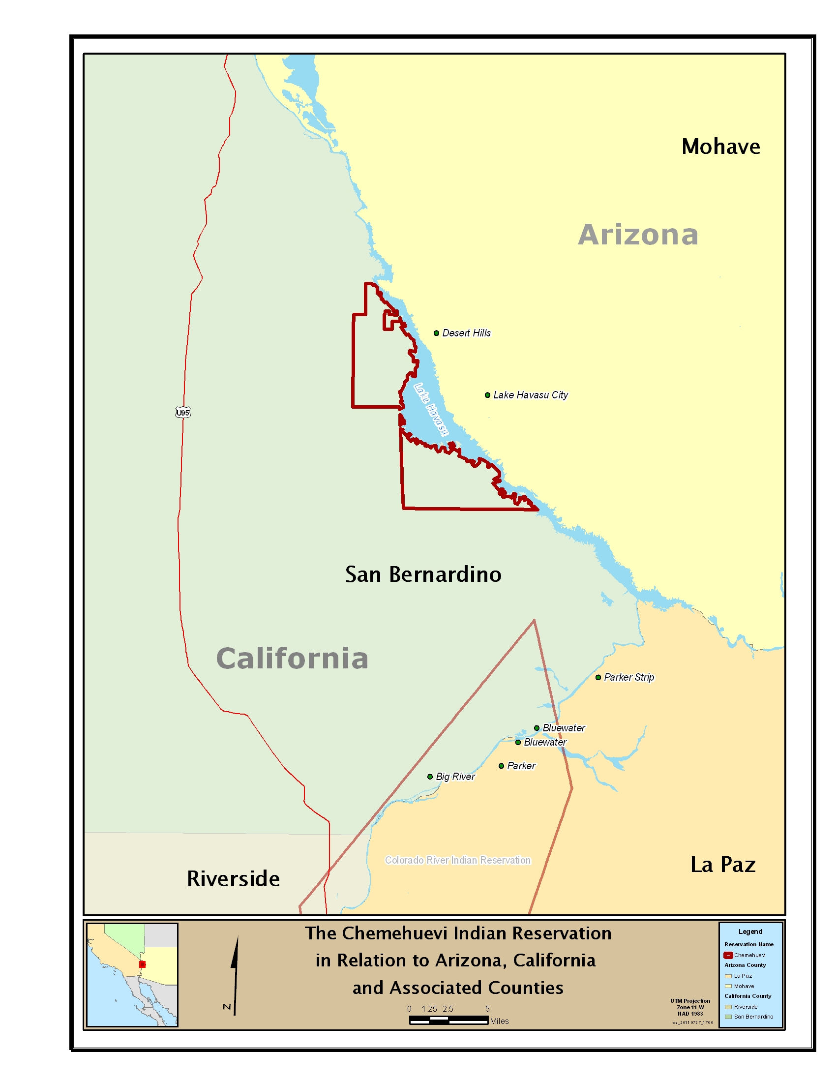 Location map, Chemehuevi Indian Reservation in the Lower Colorado River Valley, eastern San Bernardino County, Southern California.